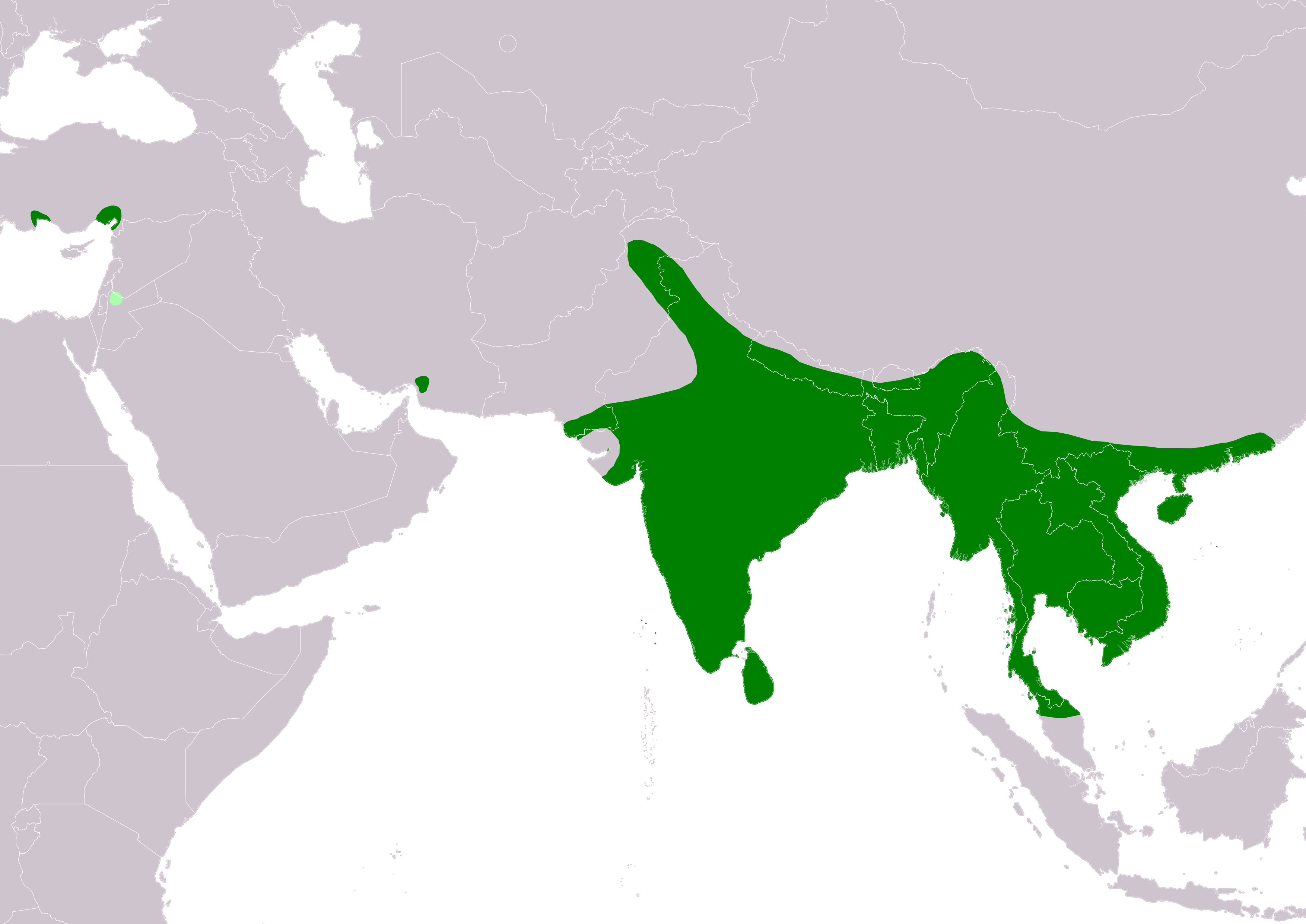 Distribution map of Brown Fish-owl (Ketupa zeylonensis) according to IUCN version 2019-2; key: Legend: Extant, resident (#008000), Possibly Extant (resident) (#AAFFAA)